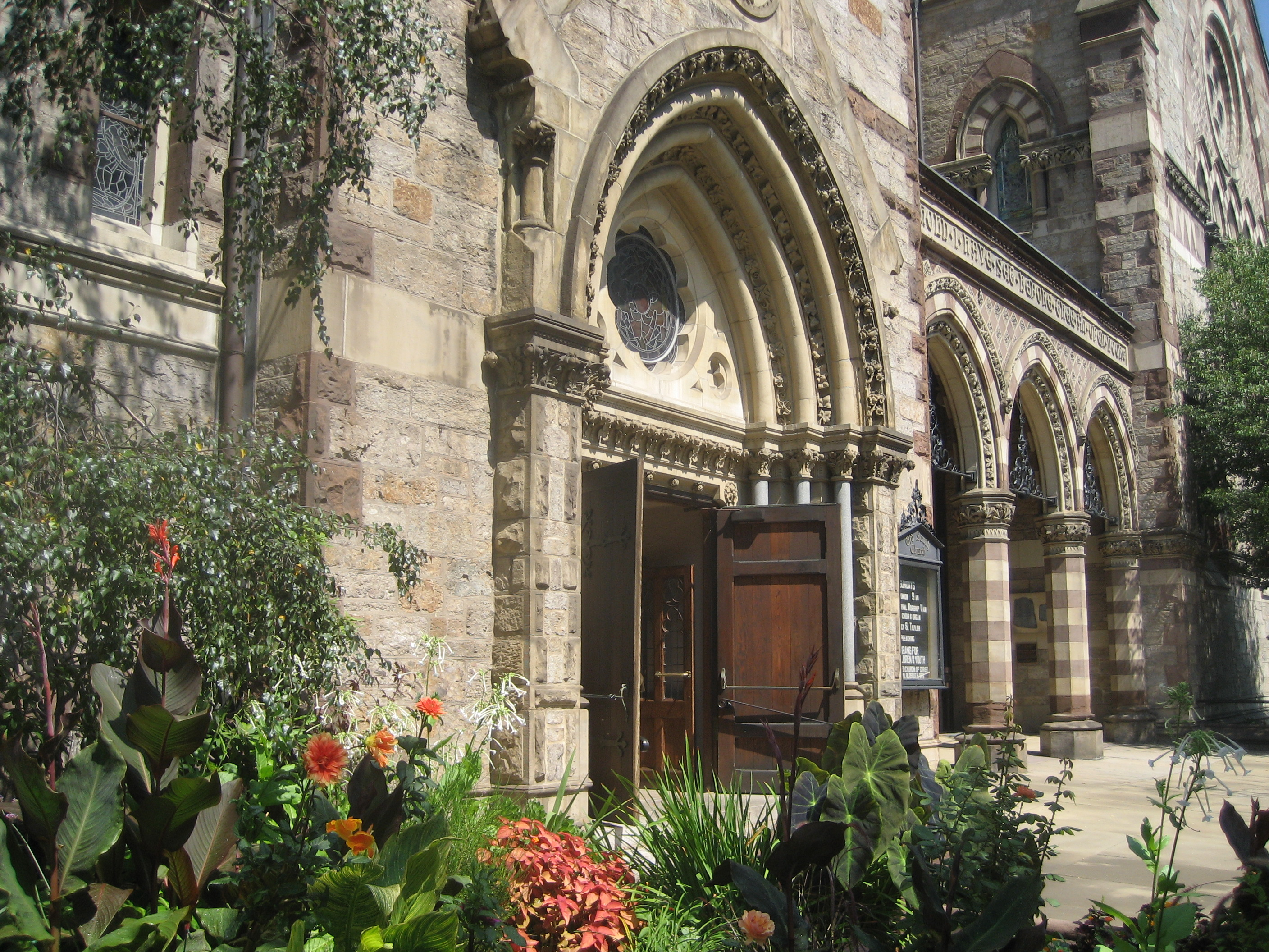 Main door to Old South Church, Boston, MA USA.